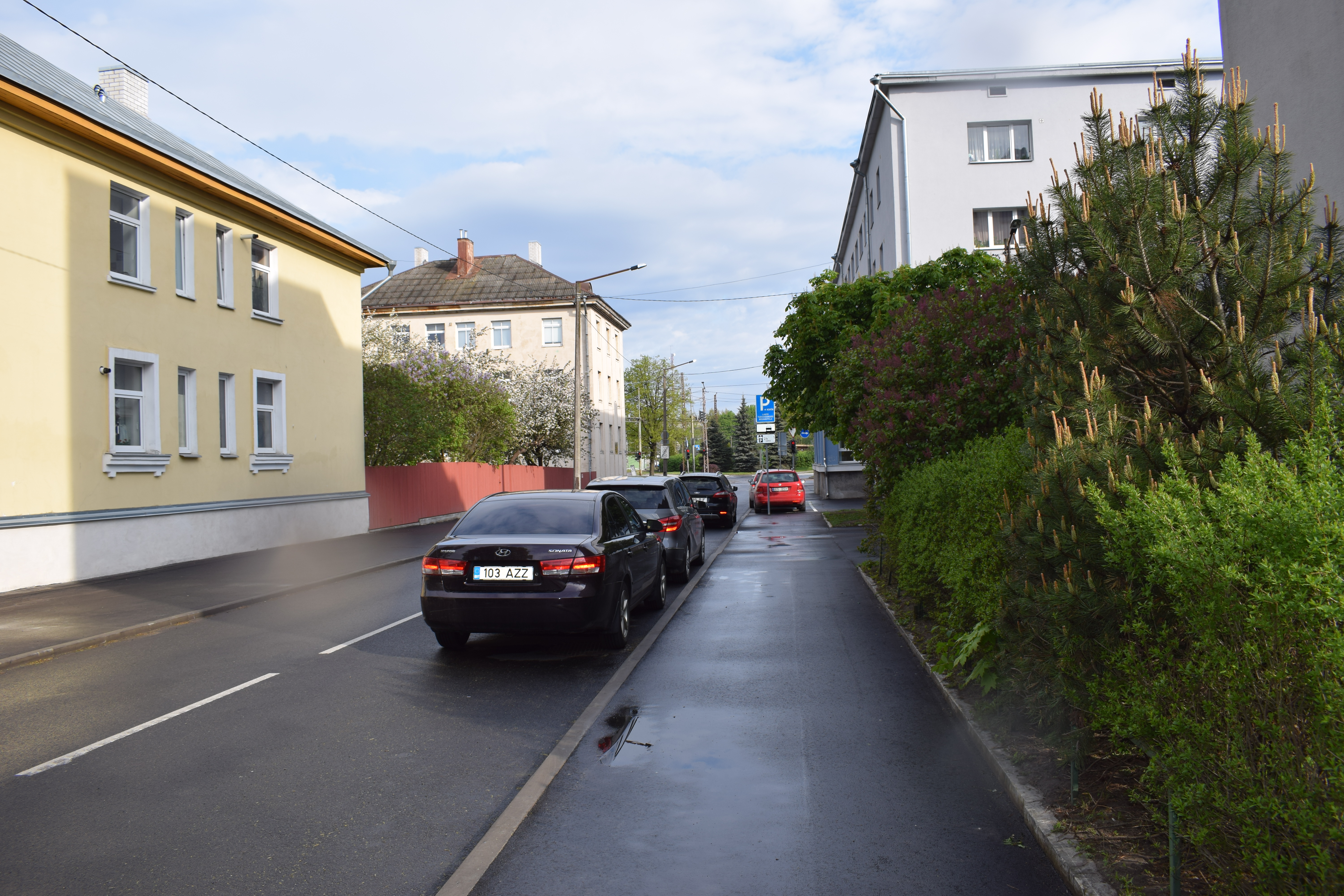 Mooni street